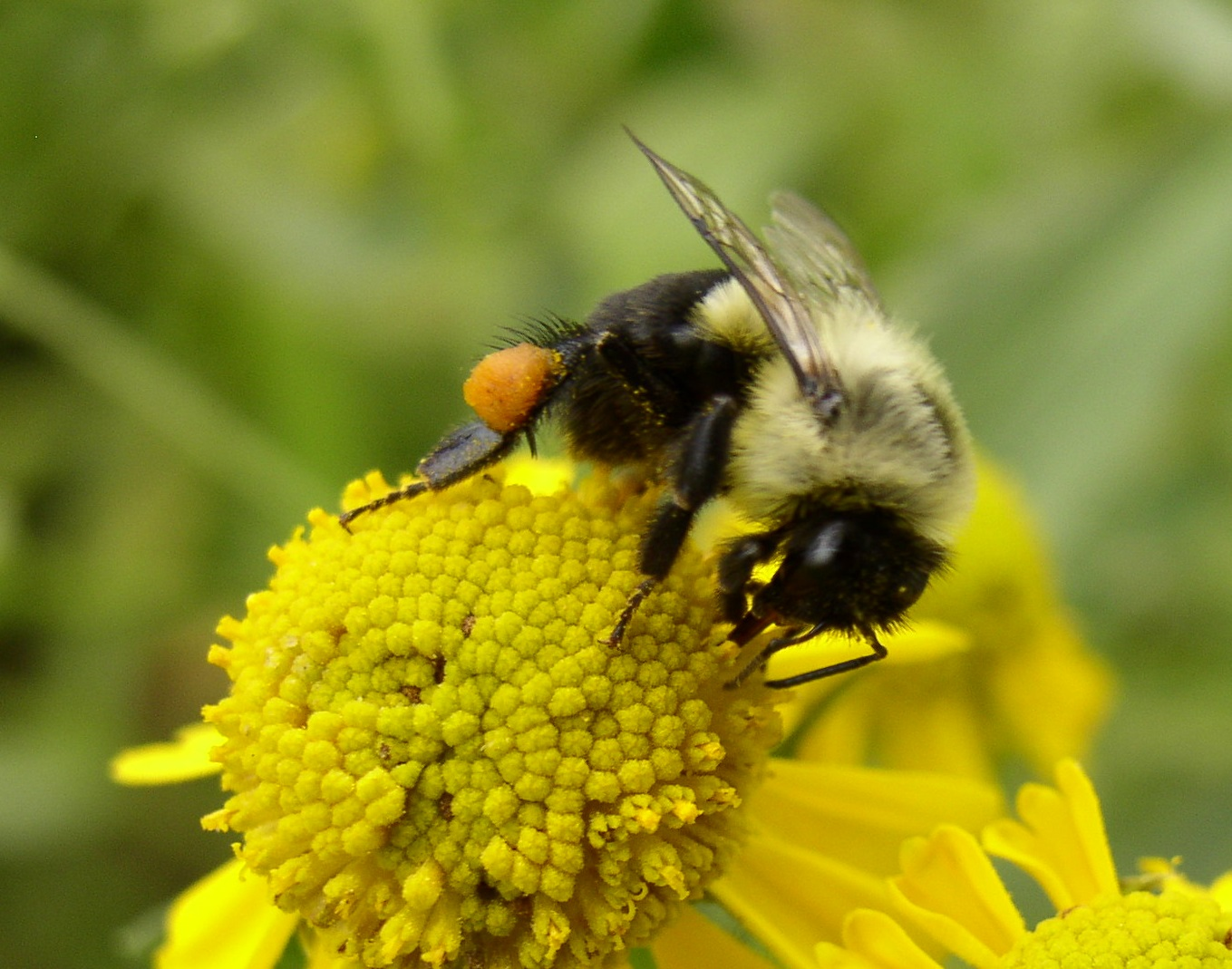 Bumblebee with pollen basket full of pollen. Peace Valley Nature Center. Montgomery County, Pennsylvania, USA